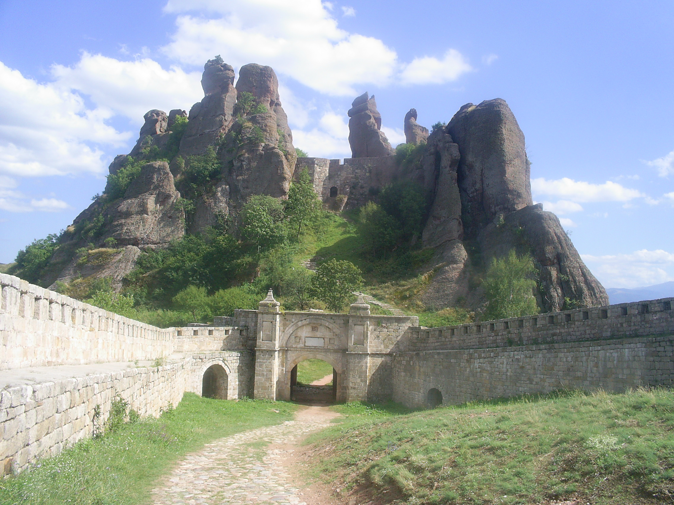 The Belogradchik fortress and Belogradchik rocks. Bulgaria